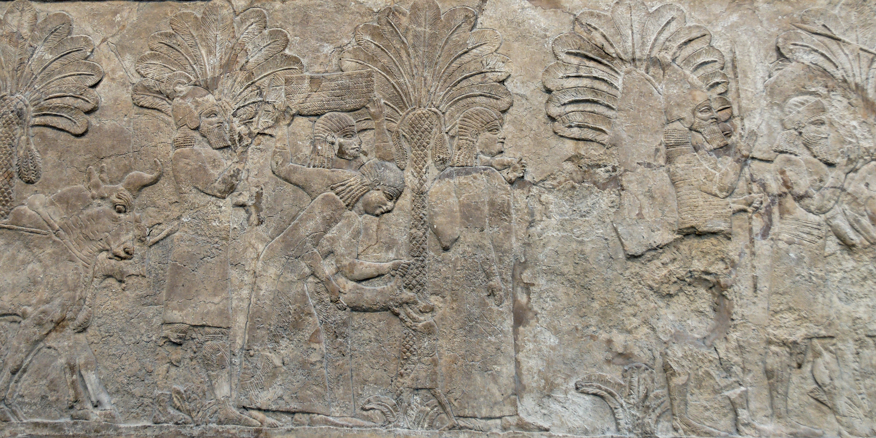 Campaigning in southern Iraq: prisoners being marched through groves of date-palms to Assyrian headquarters. Stone, Assyria artwork, ca. 640-620 BC. From the South-West Palace in Nineveh, room XXVIII, panels 7-9.